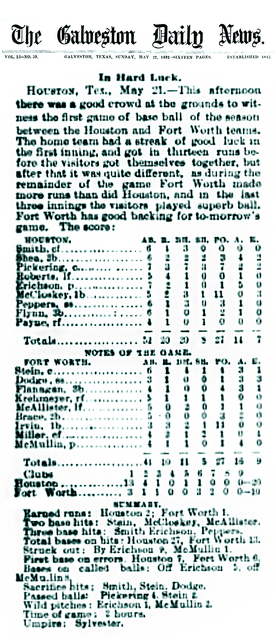 Recap and box score of historic game between Houston Mudcats and Fort Worth Panthers in which Ollie Pickering went 7-for-7, giving rise to the term Texas Leaguer.